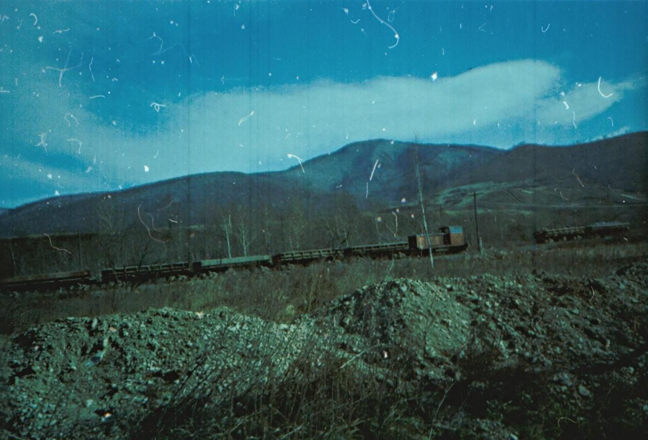 Narrow Gauge Railroad Dalpolimetall